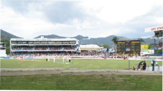 Queen's Park Oval Photo by Paddy Briggs